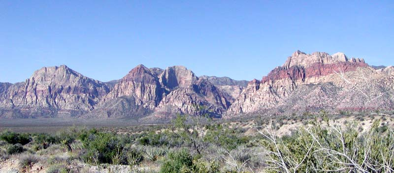 Panorama of Red Rock Canyon